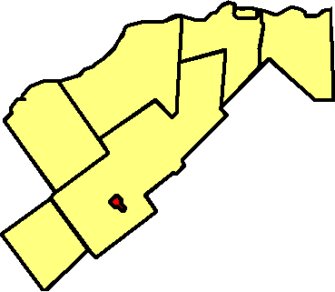 Map of Casselman, Ontario, Canada, shown within Prescott and Russell County